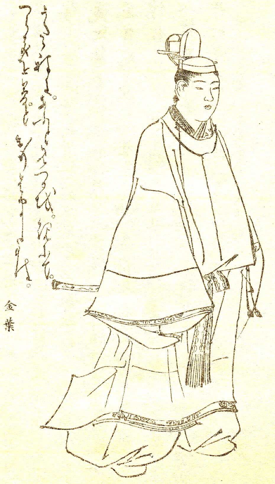 Sanjō Kin-nori(三条公教) was a Japanese court noble in Heian period.This picture was drawn by Kikuchi Yōsai(菊池容斎).